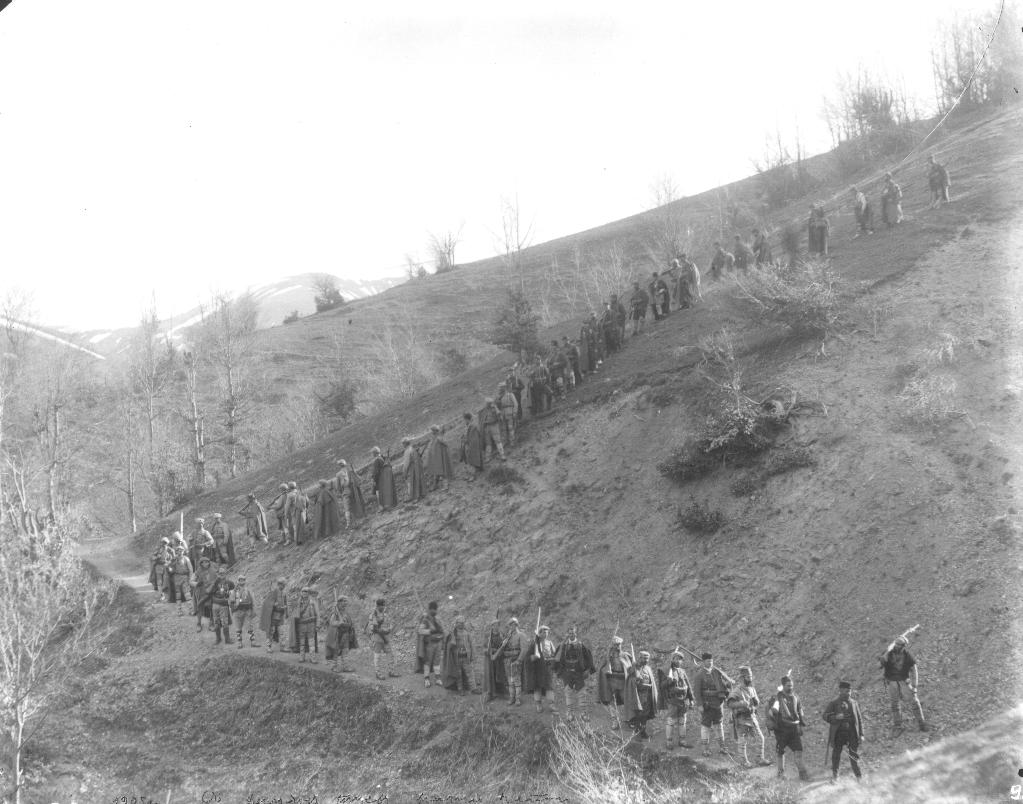 Skopie congress of bulgarian revolutionaries IMARO: Dame Gruev, Efrem Chuchkov, Mishe Razvigorov, Atanas Babata and others.